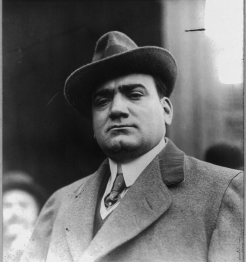 Enrico Caruso, 1873-1921. Bust, facing left.